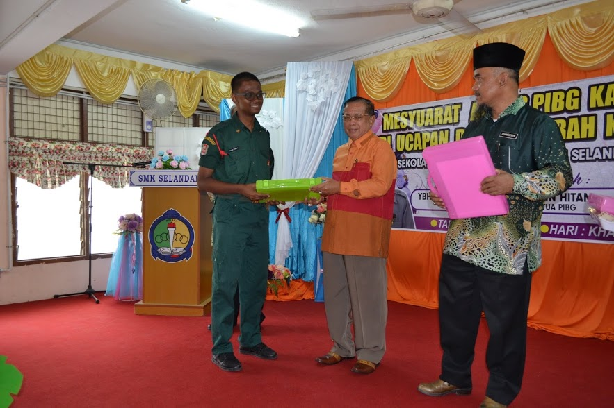 GAMBAR 12